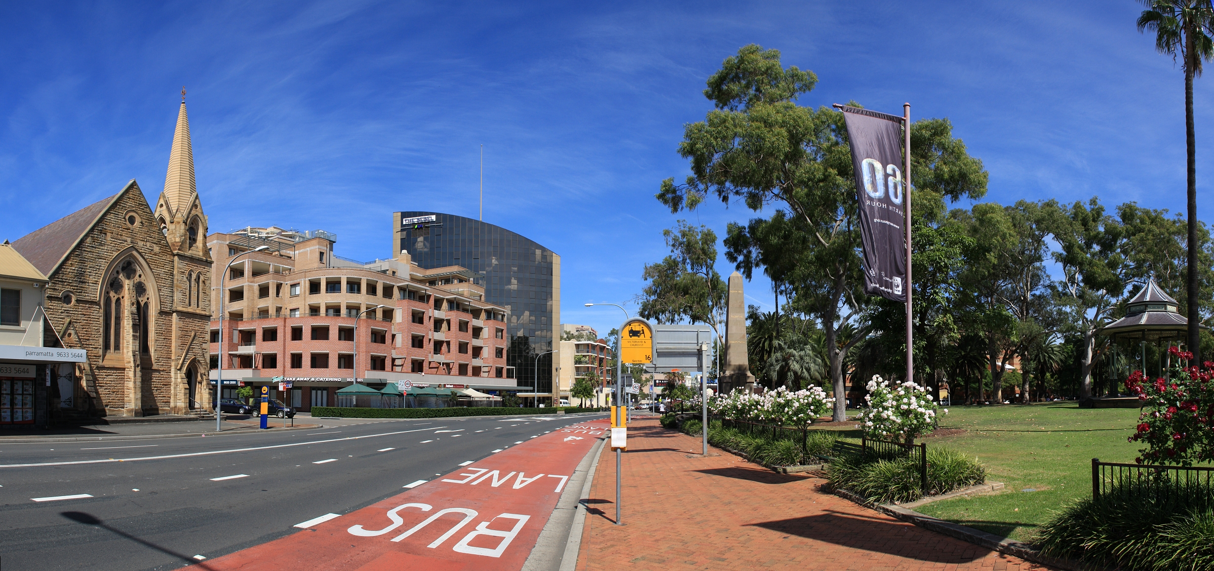 Parramatta, New South Wales